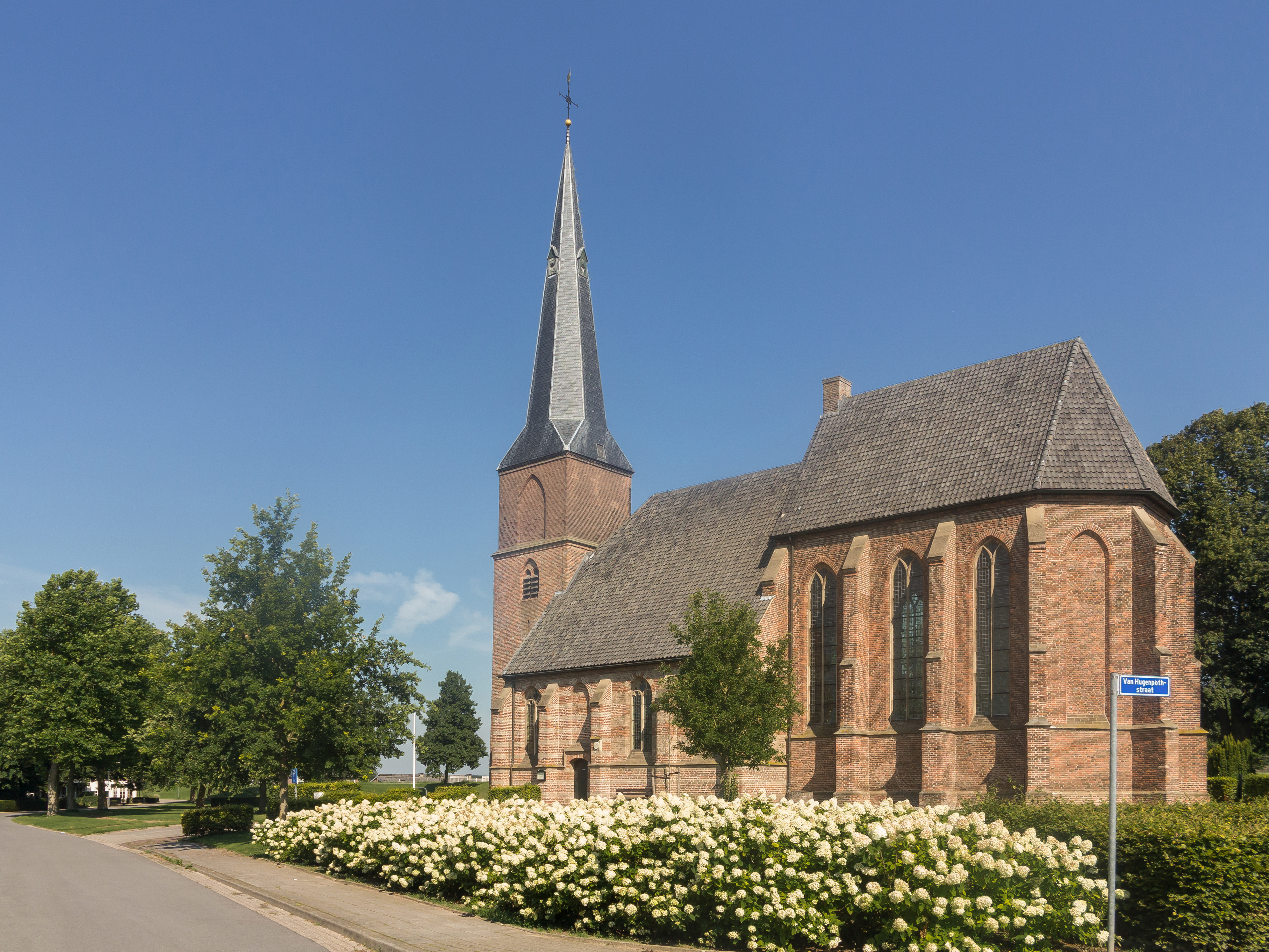 Aerdt, reformed church